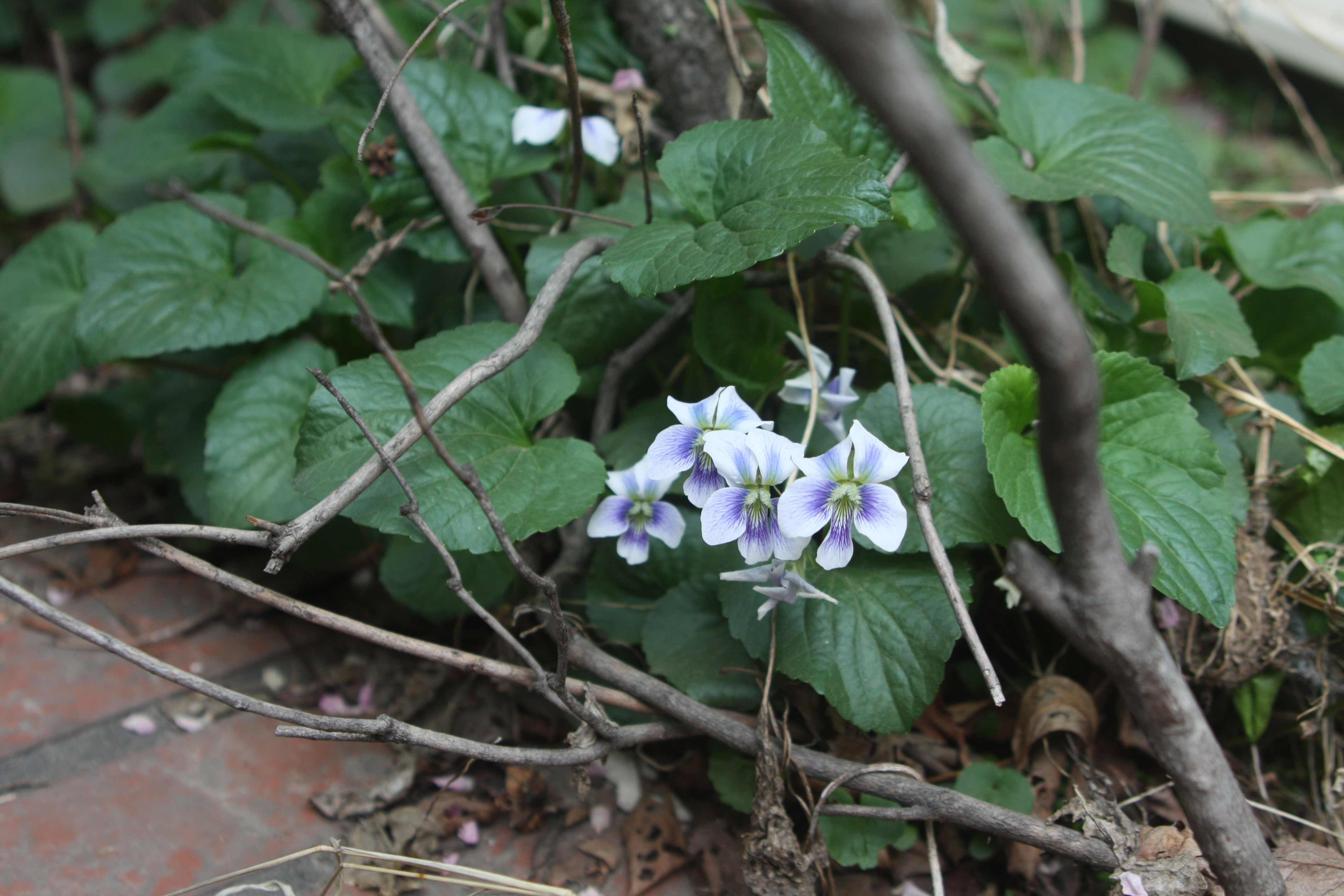 Viola sororia